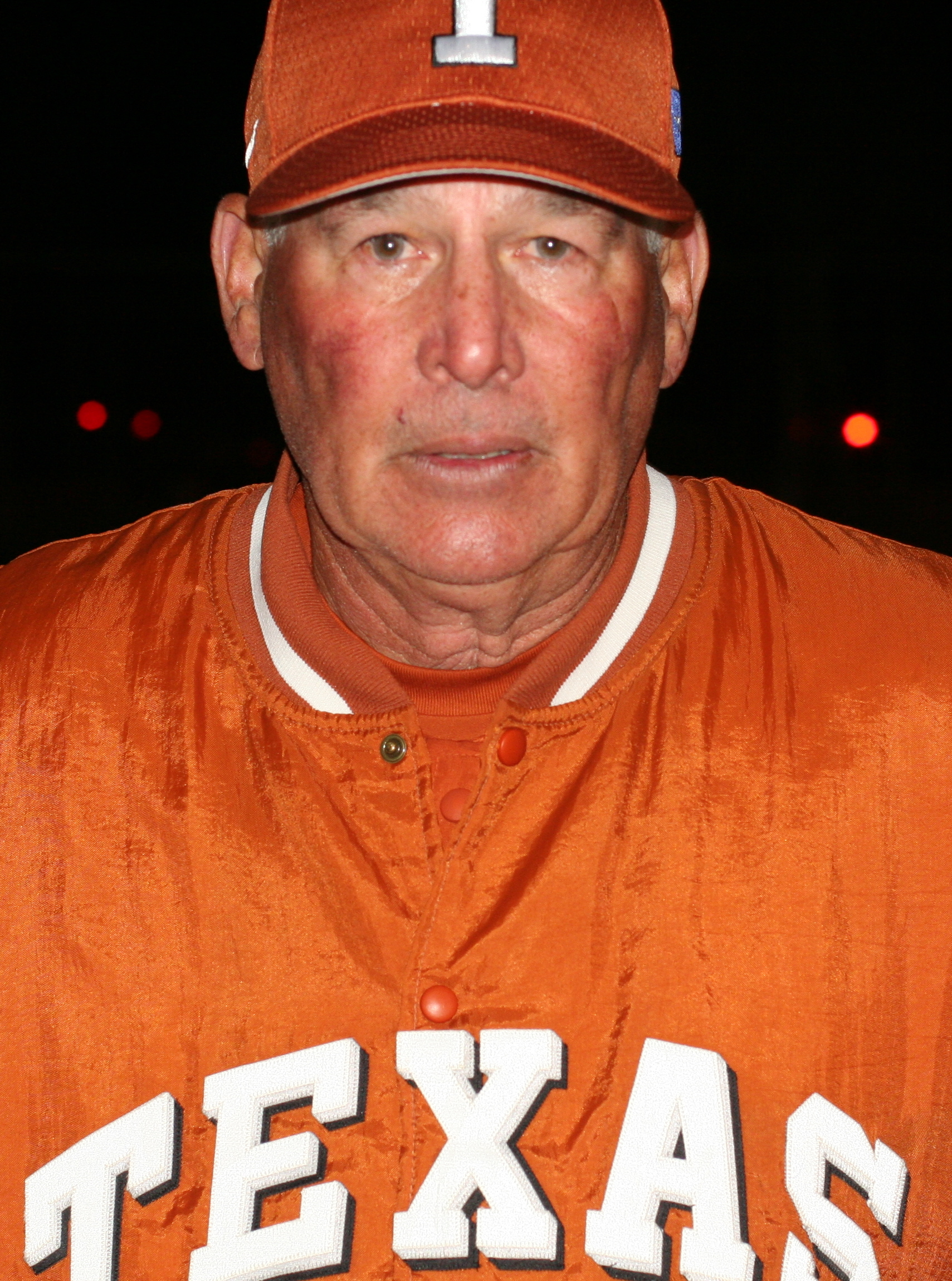 University of Texas Longhorn baseball coach Augie Garrido